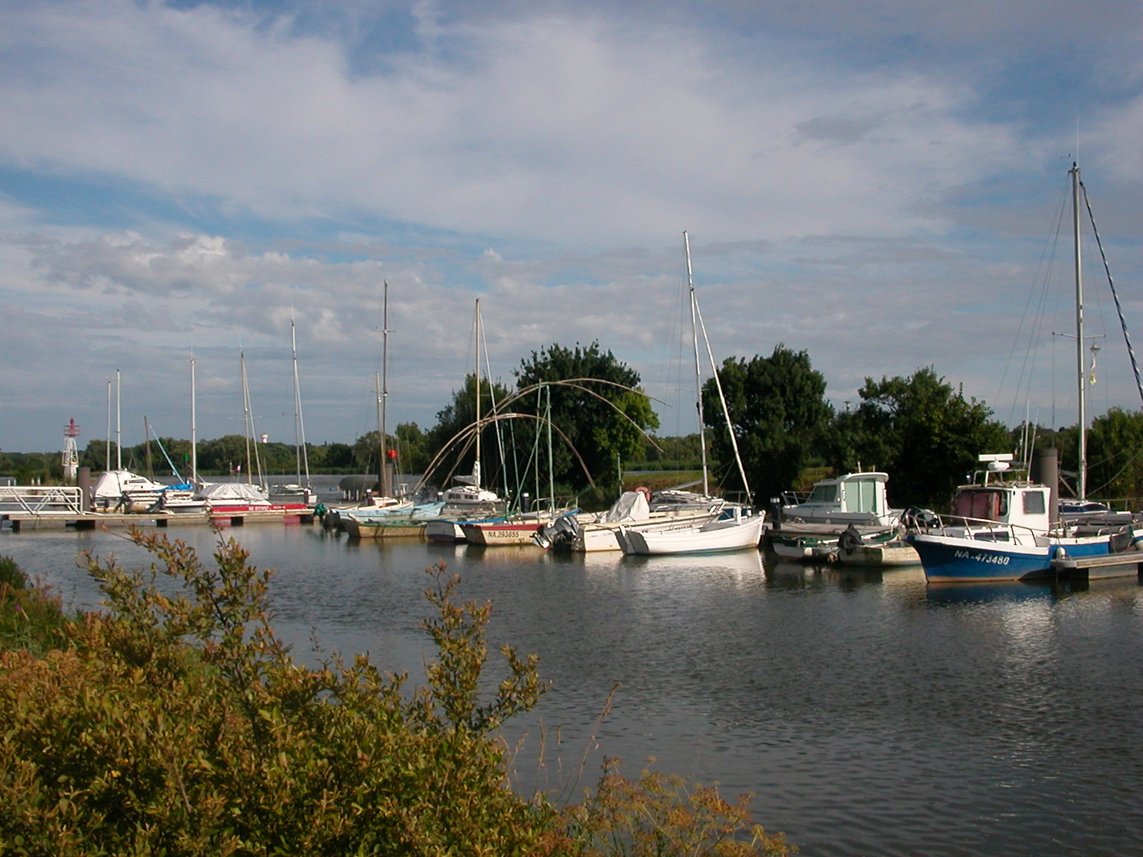 Port of Couëron on the Loire River